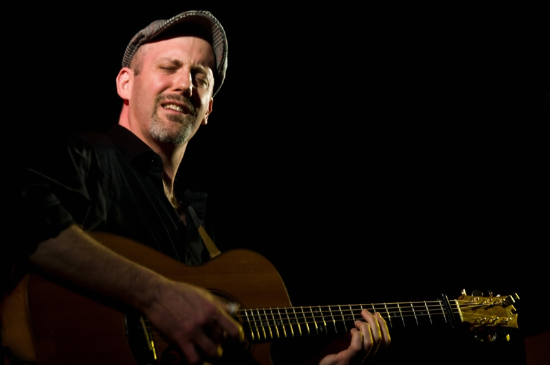 Adam Rafferty live in Concert - 2014, Wetzlar, Germany October 2014. Photo by Andrea Walter